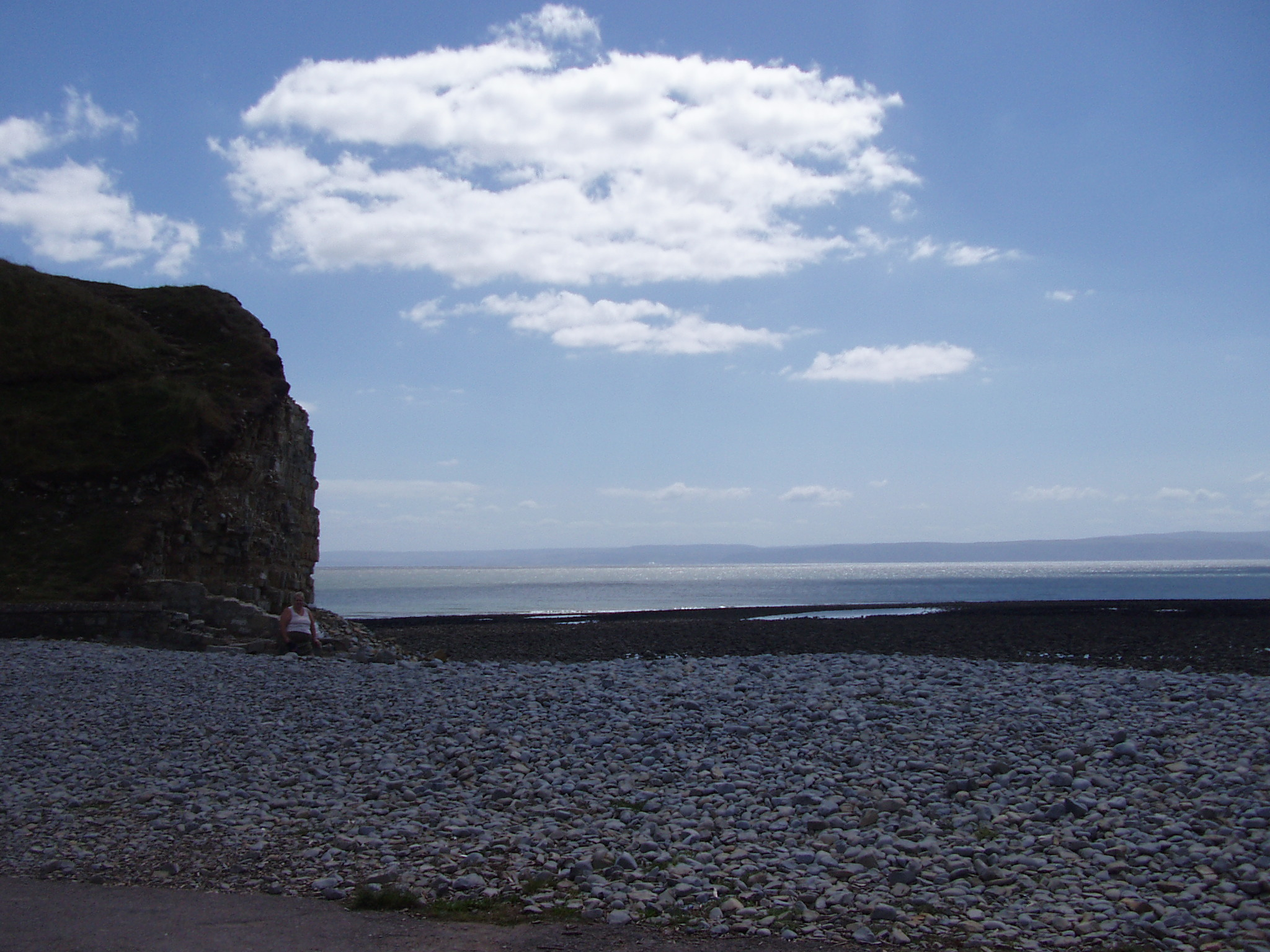 Llantwit Major Beach over looking the Bristol Channel in the Vale of Glamorgan, south Wales